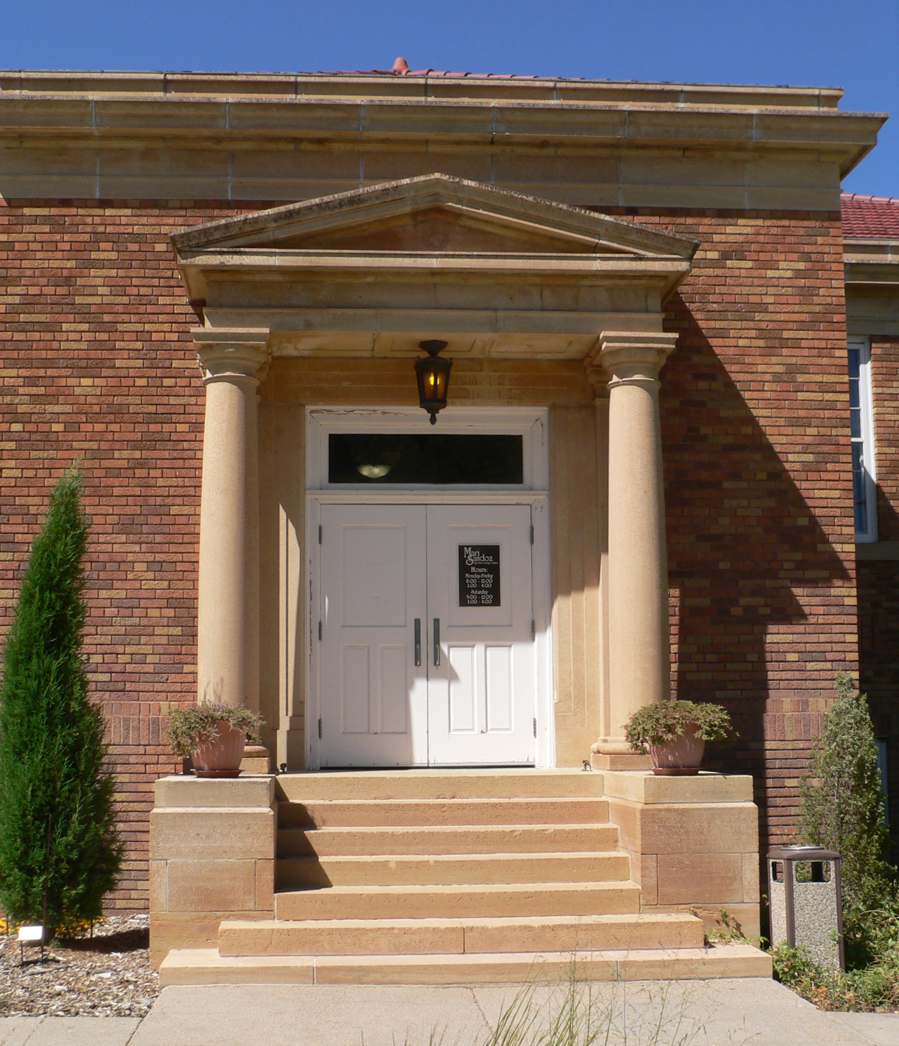 East entrance of Mari Sandoz High Plains Heritage Center, on the campus of Chadron State College in Chadron, Nebraska. The building was formerly the college's library; the Classical Revival building was constructed in 1929, and is listed in the National Register of Historic Places.